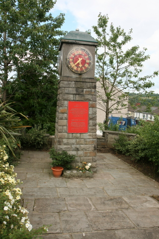 Garden of Peace and Memorial at Gilfach near Bargoed by Darren Wyn Rees at Aberdare Blog